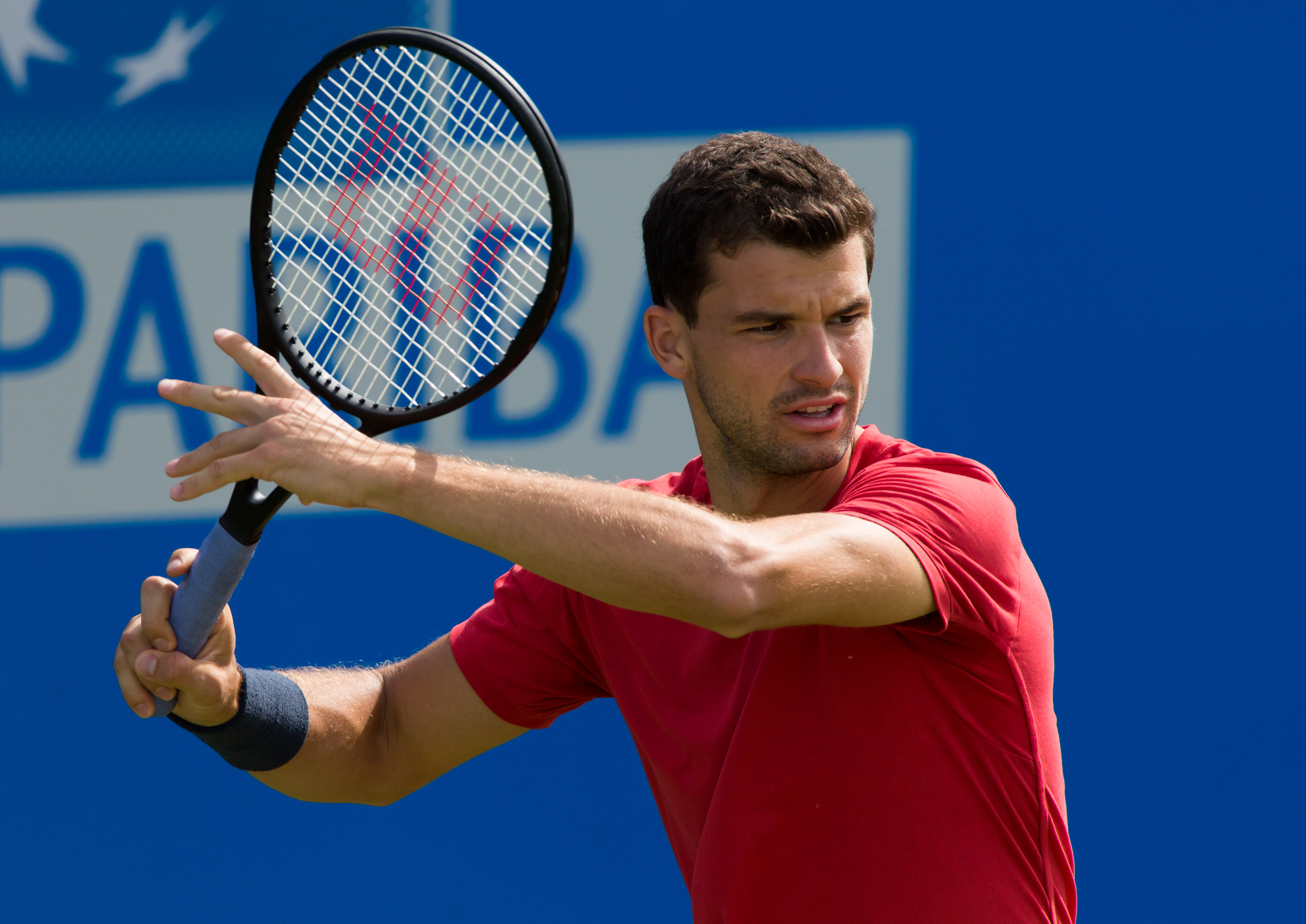 Grigor Dimitrov during practice at the Queens Club Aegon Championships in London, England.